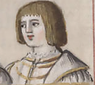 Tello of Castile